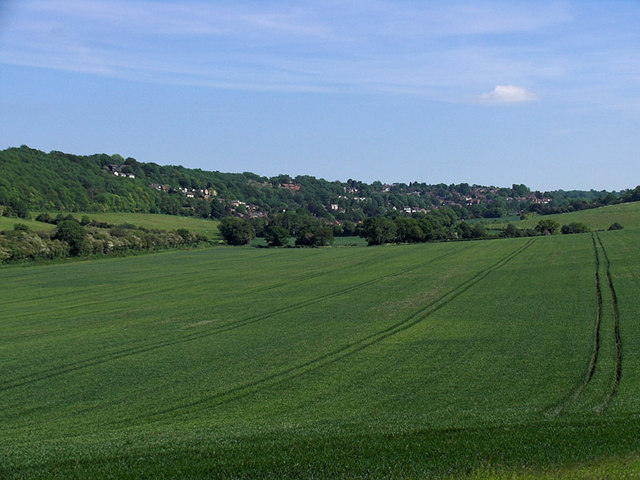 Biggin Hill. The town as seen from the edge of Jewels Wood. Norheads Lane runs through this picture from the left.